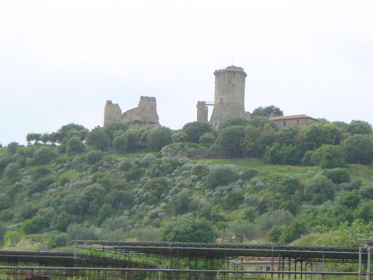 Velia: a medieval tower build out of a greek temple. Selfmade image 2005.